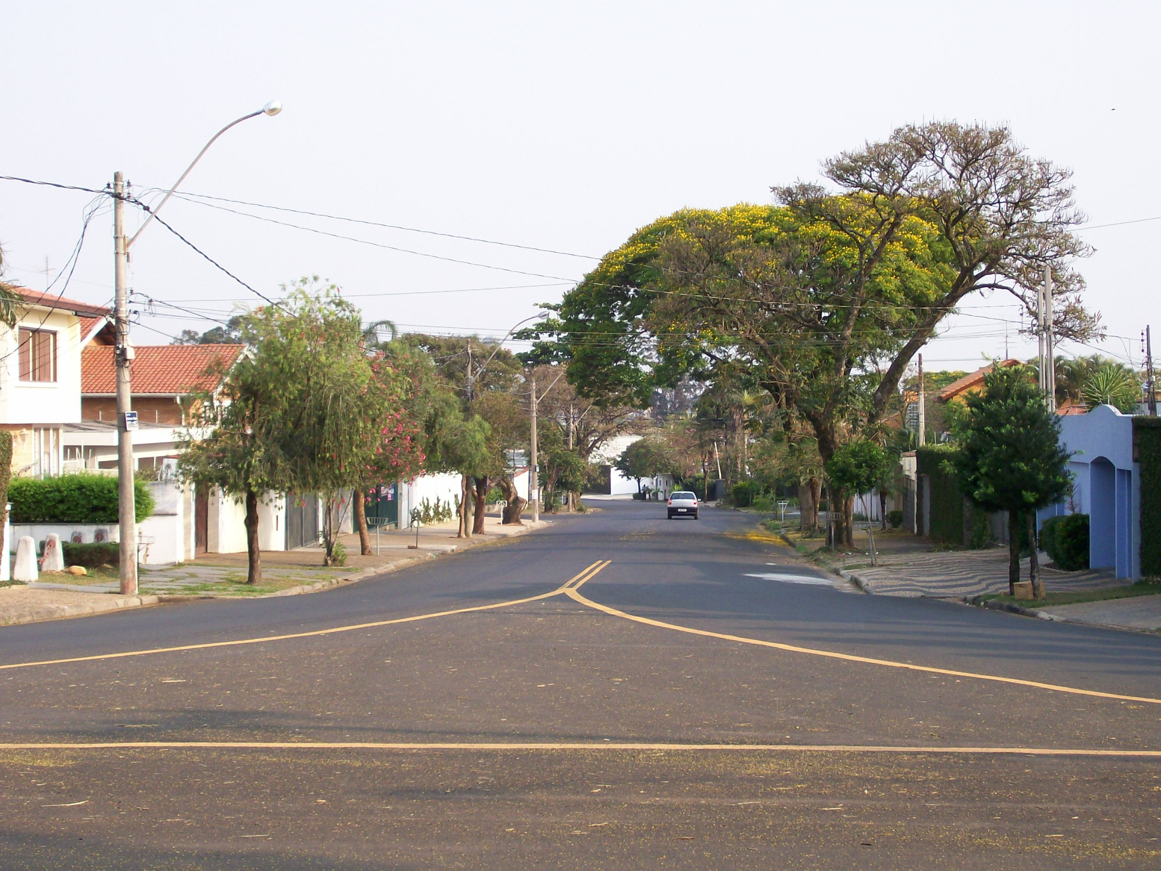 Calm street in the neighbourhood of Nova Campinas, Campinas, Brazil